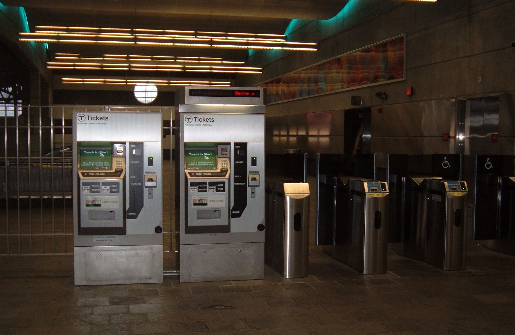 Fare gates and Charliecard ticket machine at the MBTA World Trade Center Silver Line station in Boston.